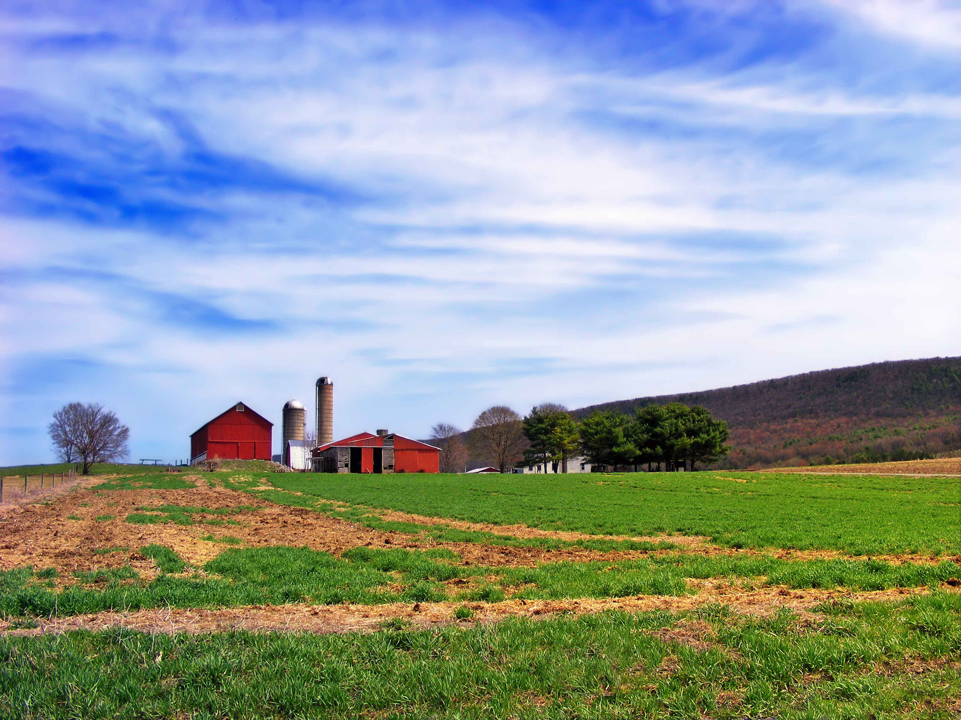 Farmstead, Greene Township, Clinton County.